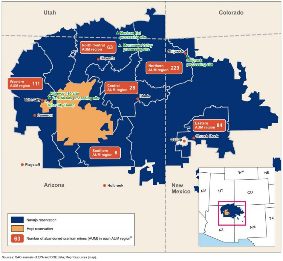 This image is excerpted from a U.S. GAO report: URANIUM CONTAMINATION: Overall Scope, Time Frame, and Cost Information Is Needed for Contamination Cleanup on the Navajo Reservation